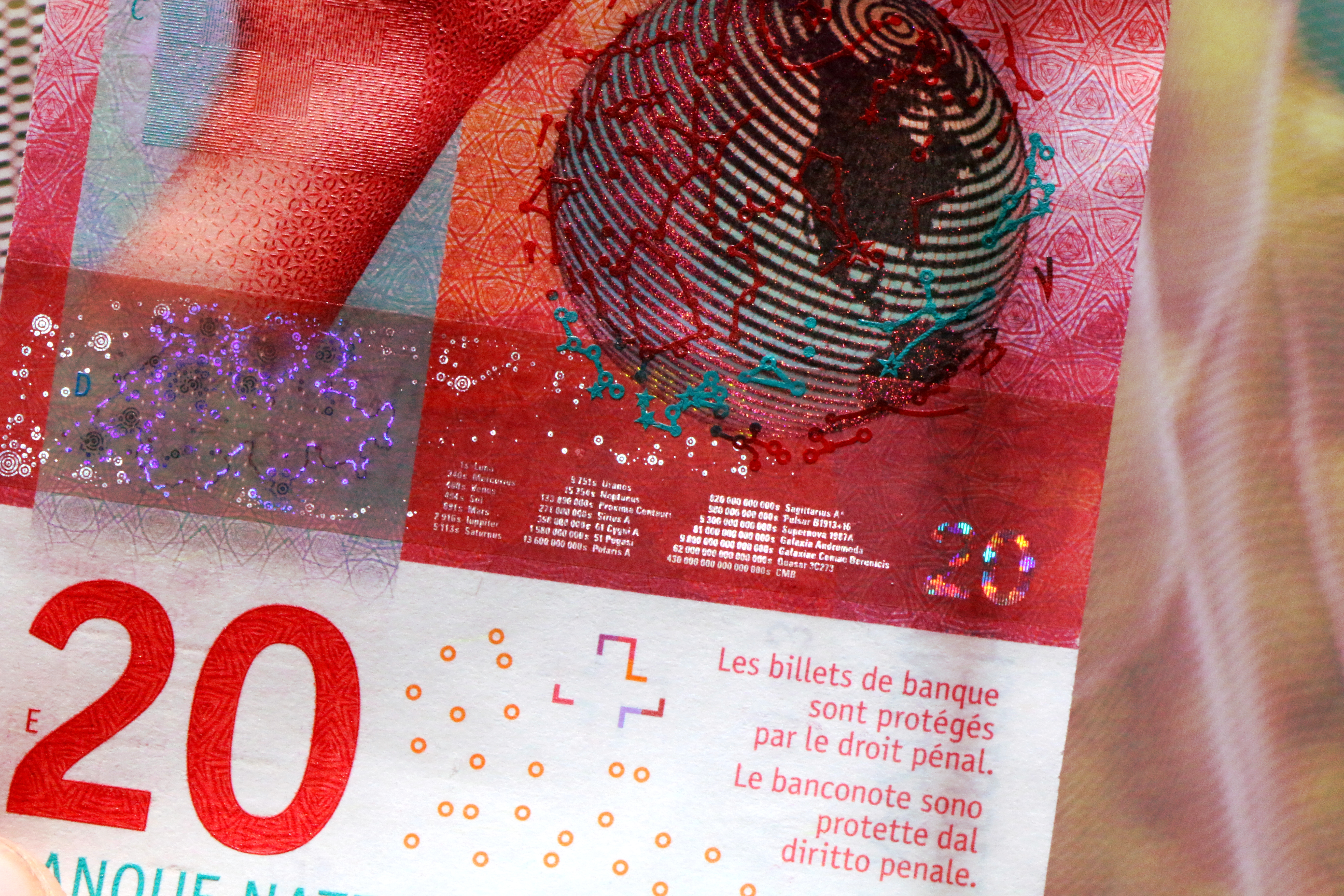 Picture of 20 CHF fine print: distance between earth and various celestial bodies, in light seconds